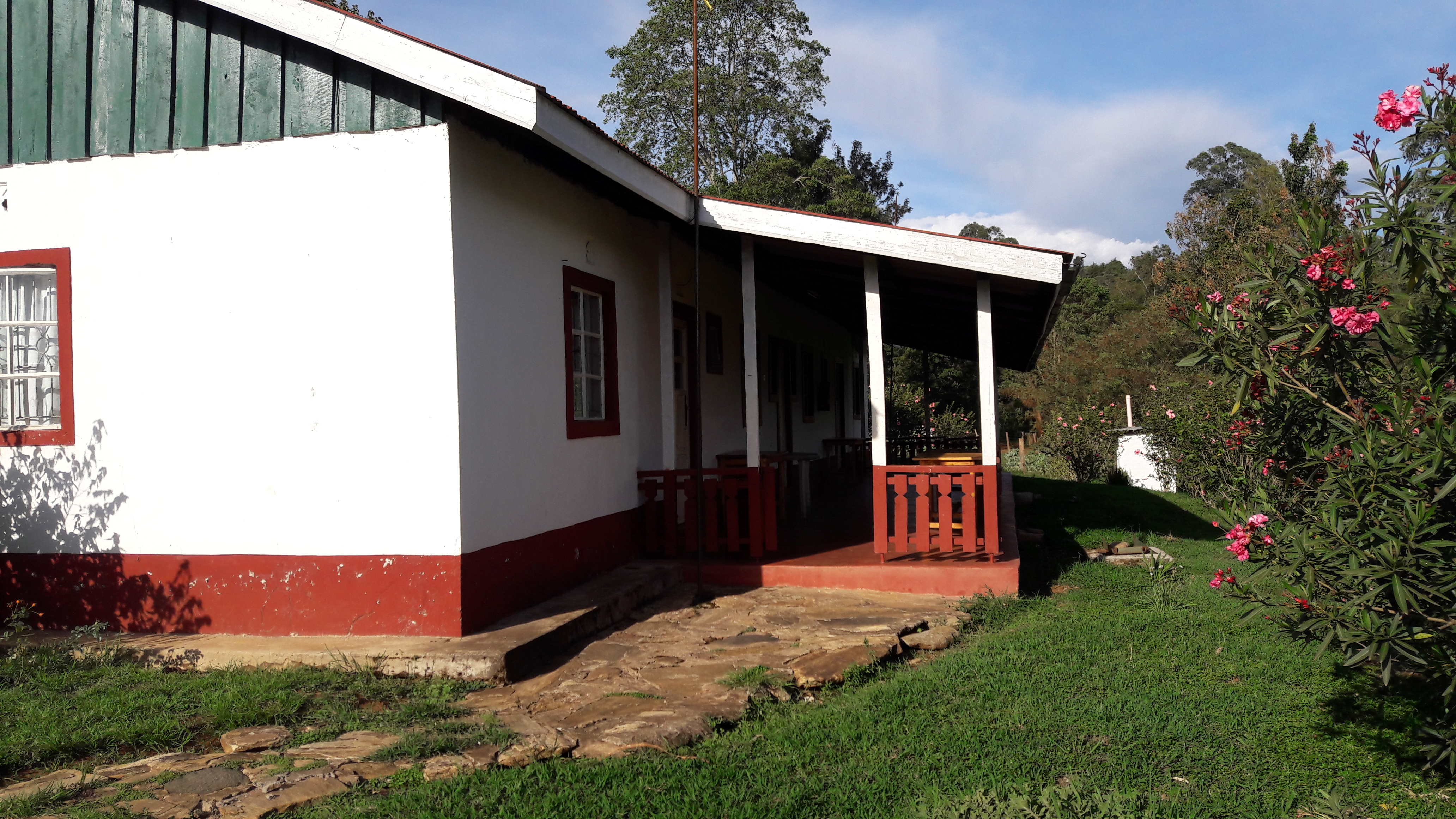 This is a local theological school located in Kapenguria Town